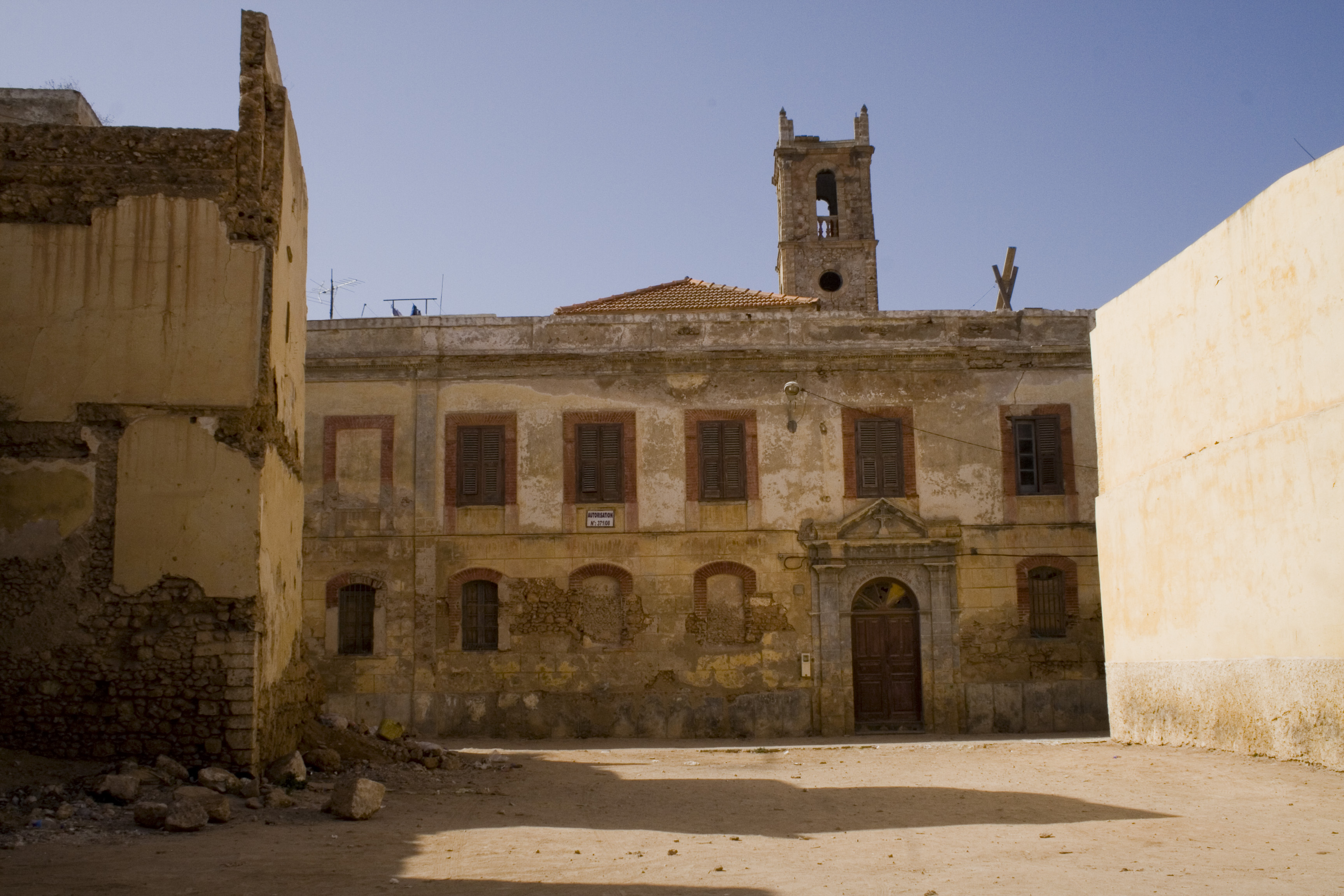 A church in the formerly Portuguese port-town of El Jadida in western Morocco